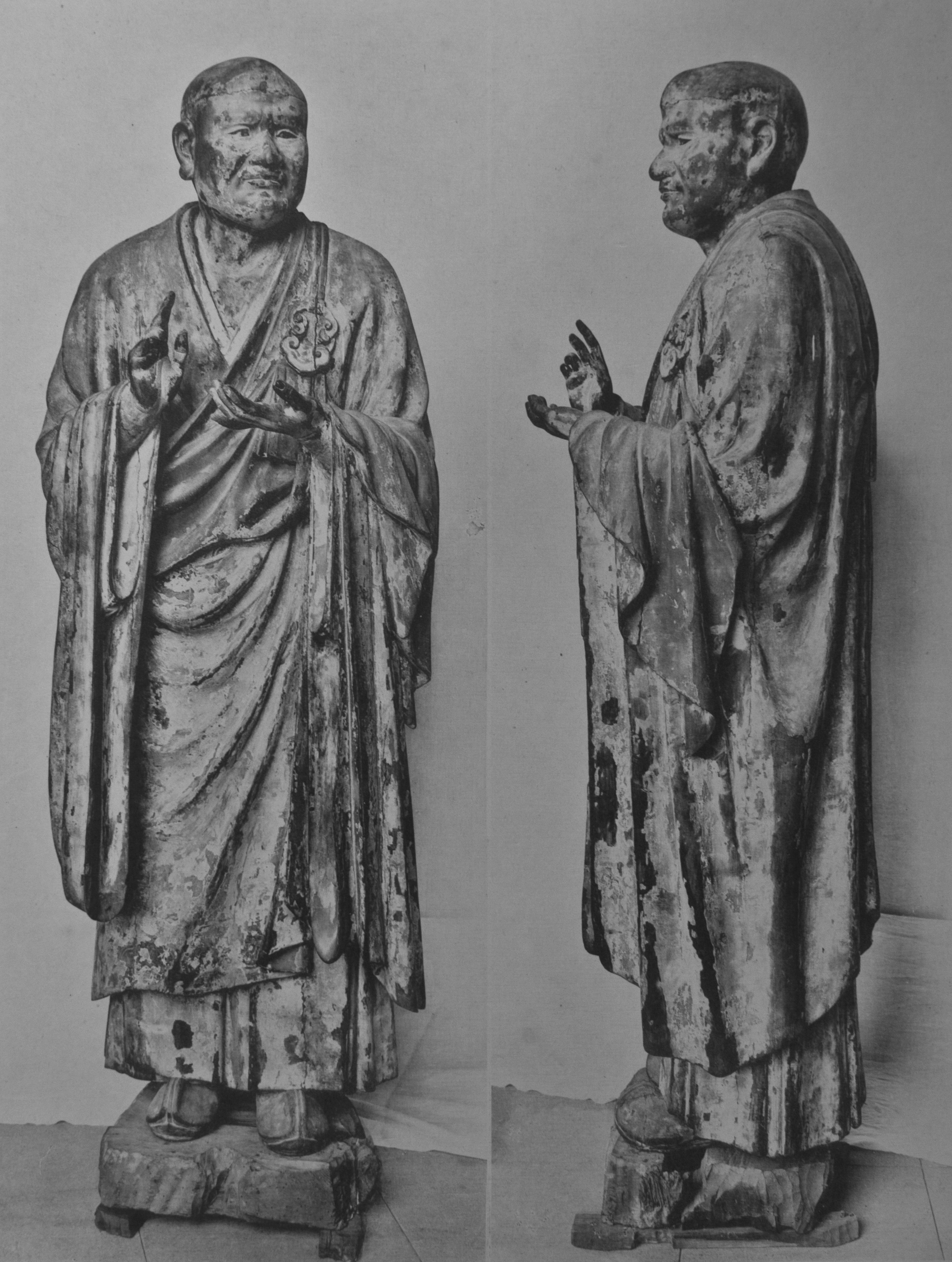 Kofukuji, Nara, Japan